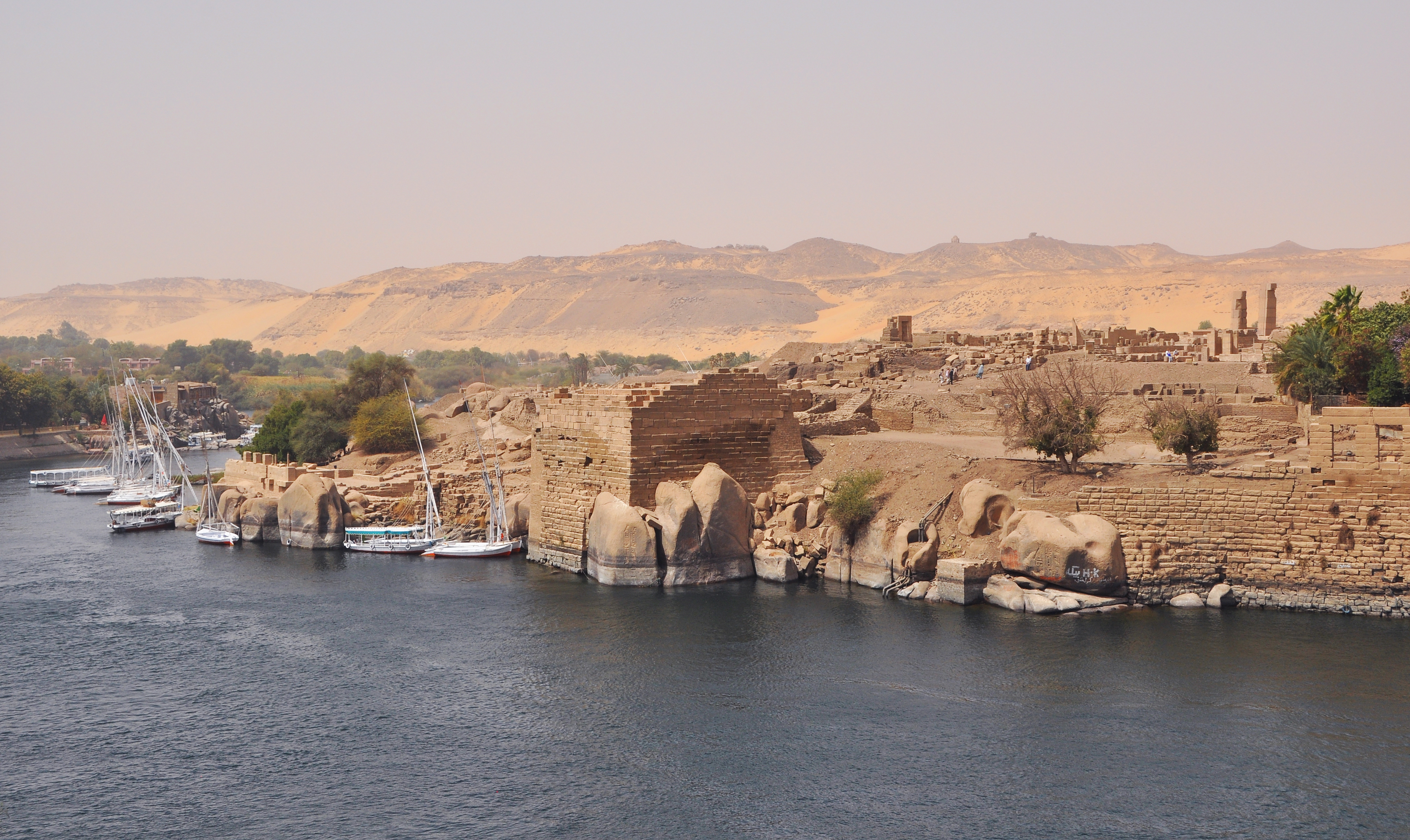 Aswan (Egypt): Elephantine Island